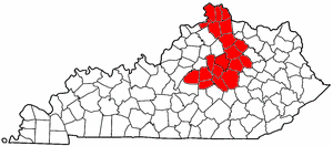 Public domain map courtesy of The General Libraries, The University of Texas at Austin, modified to show counties. See Wikipedia:U.S. county maps. The image was modified from the public domain source by Dale Arnett|User:Dale Arnett|Dale Arnett.